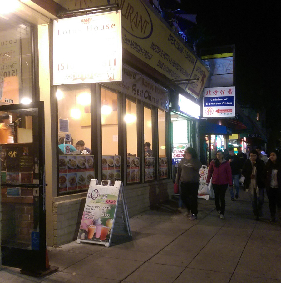 Berkeley, California - Southside - Lotus House restaurant at 2517 Durant